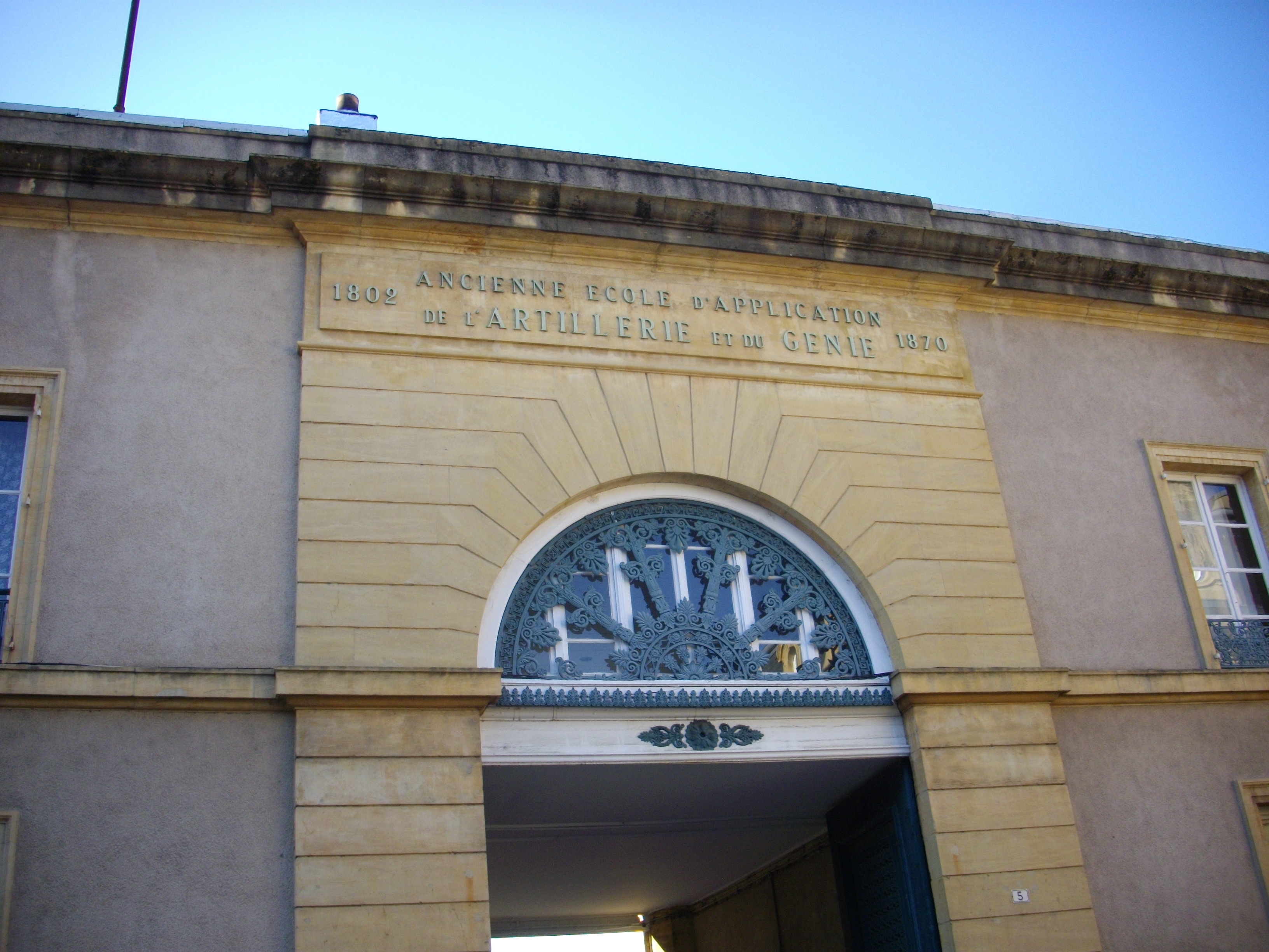 Former artillery and engineering school (1802-1870) in Metz (Moselle, France) .